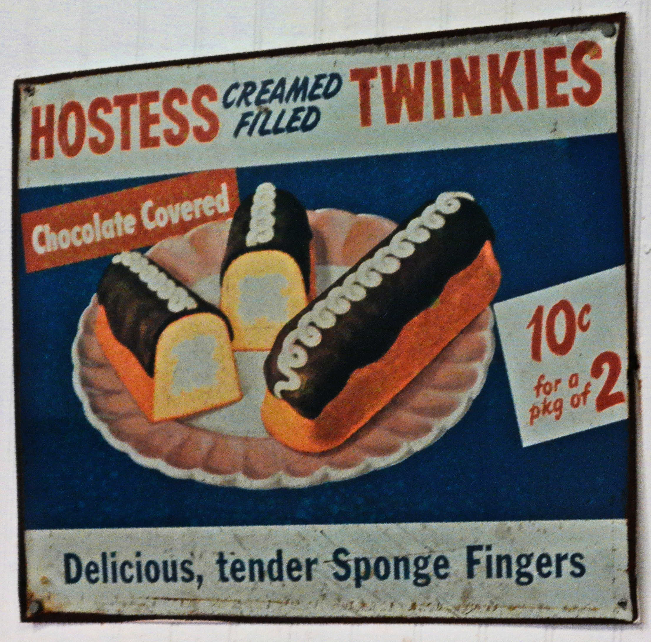 An early advertisement for chocolate covered Hostess creamed filled Twinkies, the delicious, tender, sponge fingers.